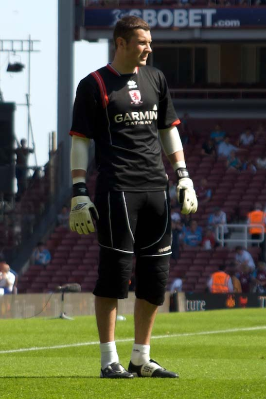 This file has been extracted from another file: Ross Turnbull in 2009.jpg